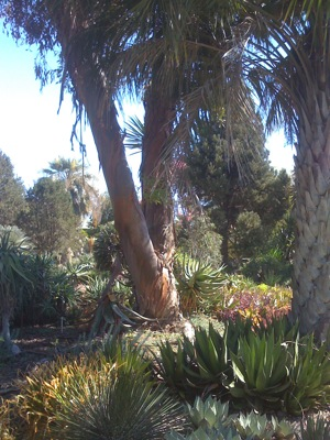 Ruth Bancroft Garden — specialized botanical garden, in Walnut Creek, East Bay, California. Historic "dry garden" landscape designed by Ruth Bancroft, begun in 1972. The first preservation project of The Garden Conservancy in 1989, and now a public garden.